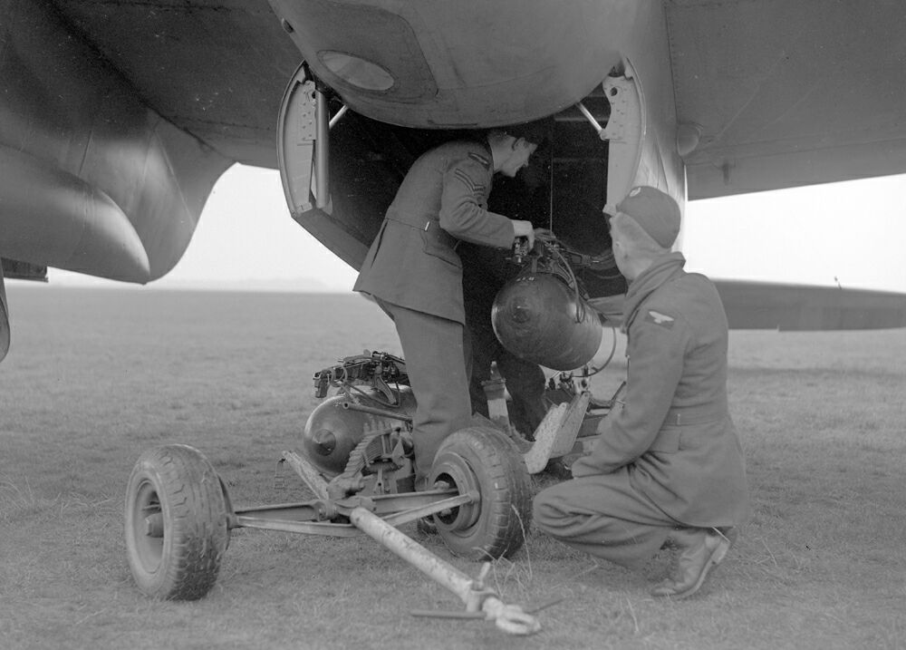 "Bombing up" or loading bombs onto De Havilland Mosquito.